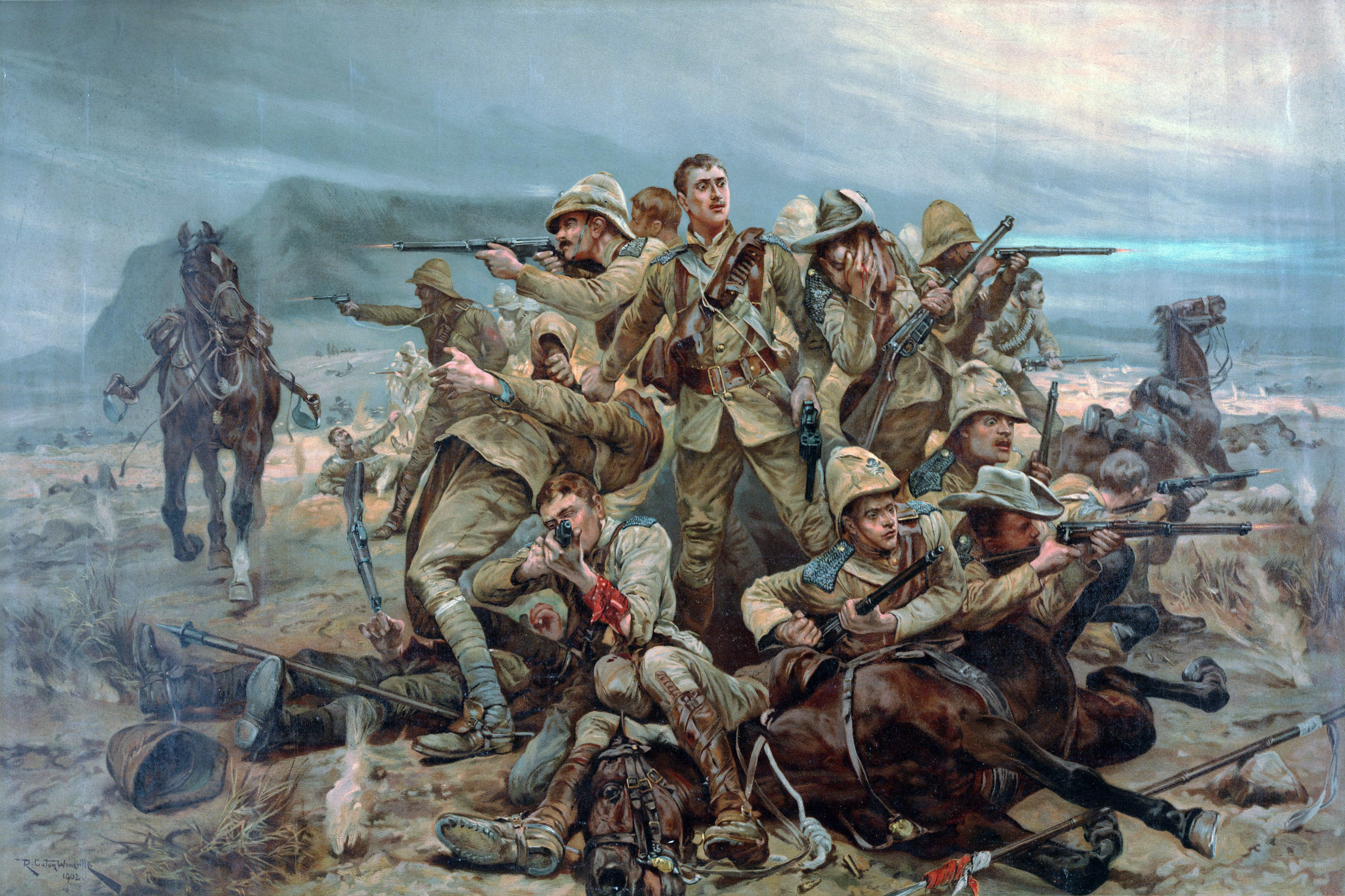 17th Lancers at the Battle of Modderfontein. Painting by Richard Caton Woodville, Jr. (1856-1927)